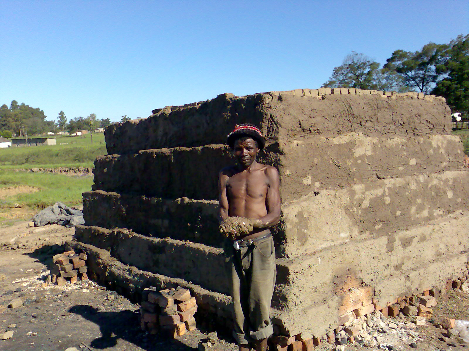 A traditional method of firing bricks: a stack of dried bricks called a brick clamp is covered or scove with mud as an insulating material thus this is called a scove kiln.